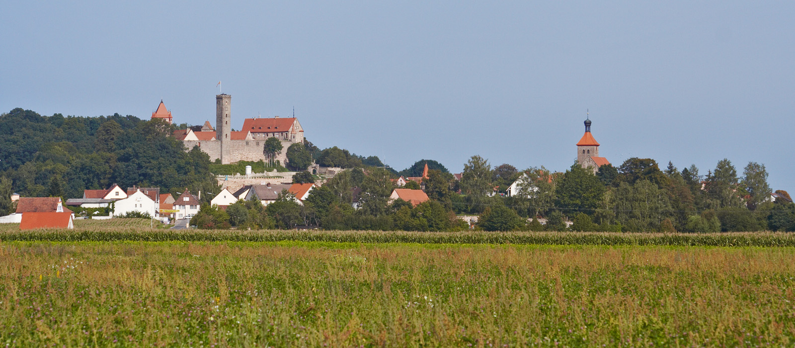 View of the city of Abenberg from west, above is castle Abenberg.